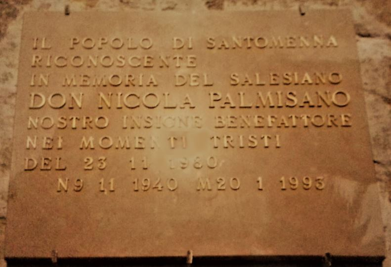 Commemorative plaque of Don Nicola Palmisano (Taurisano 1940 - Rome 1993) with dedication of a sports center in Santomenna , Salerno, Ttaly.